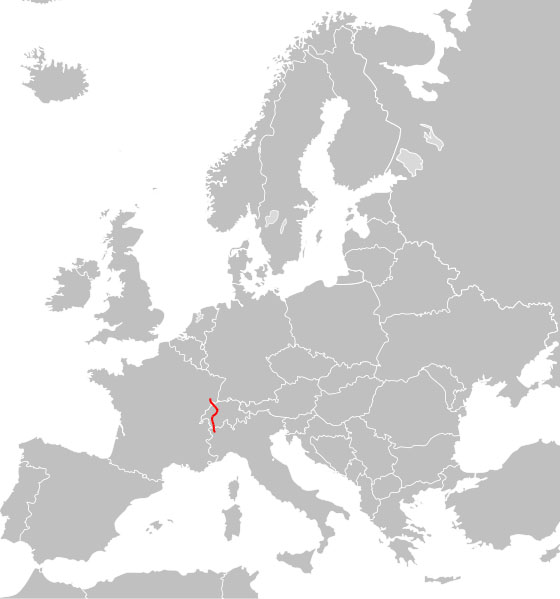 The European route 27